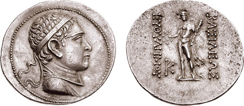 Coin of the Bactrian king Euthydemosii